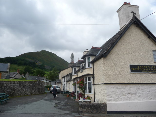 Village scene in Llangynog